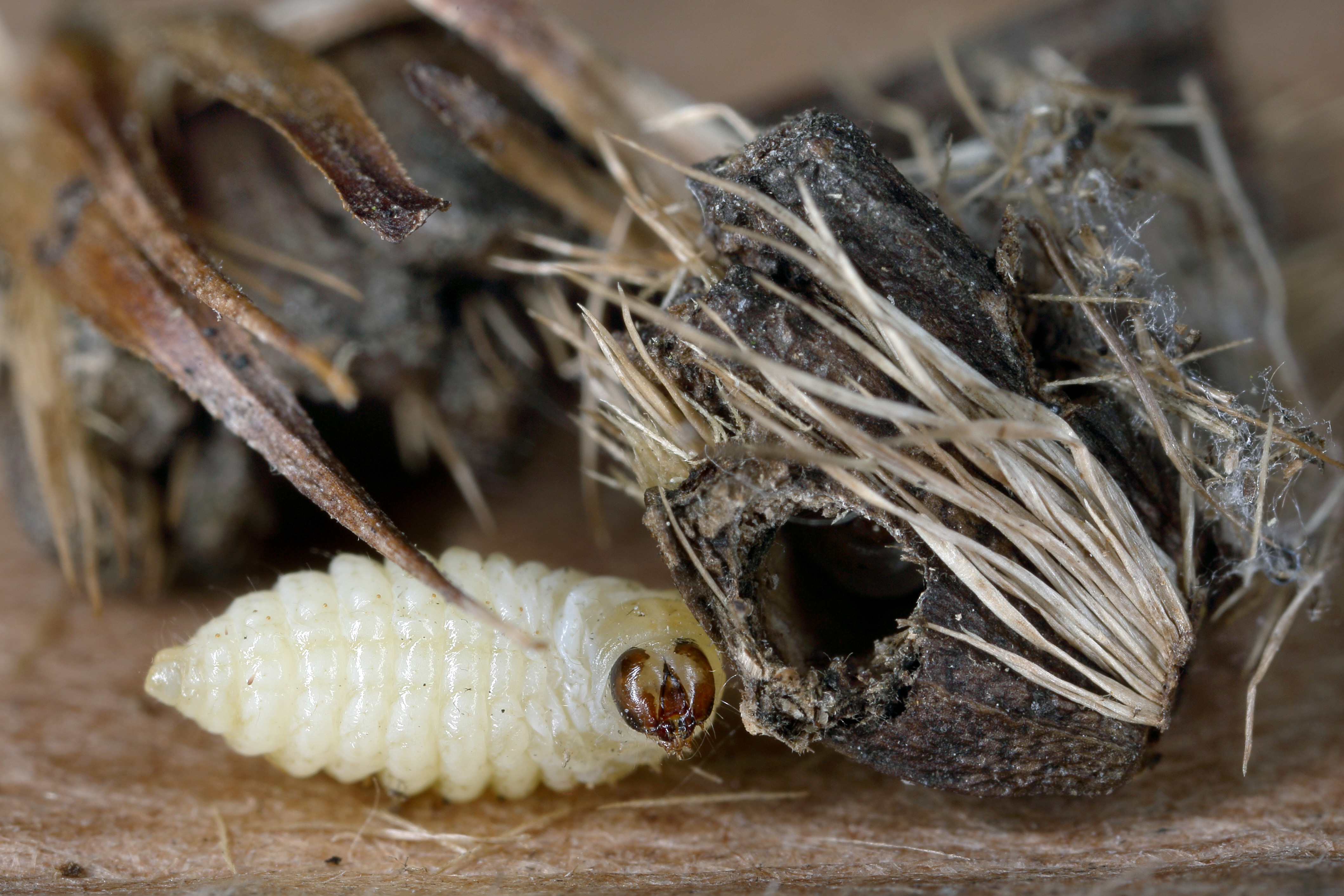 Hurcott Wood, Worcestershire. I found several of these larvae in greater burdock (Arctium lappa) seed heads. The image shows the larva removed from, but adjacent to the hibernaculum.